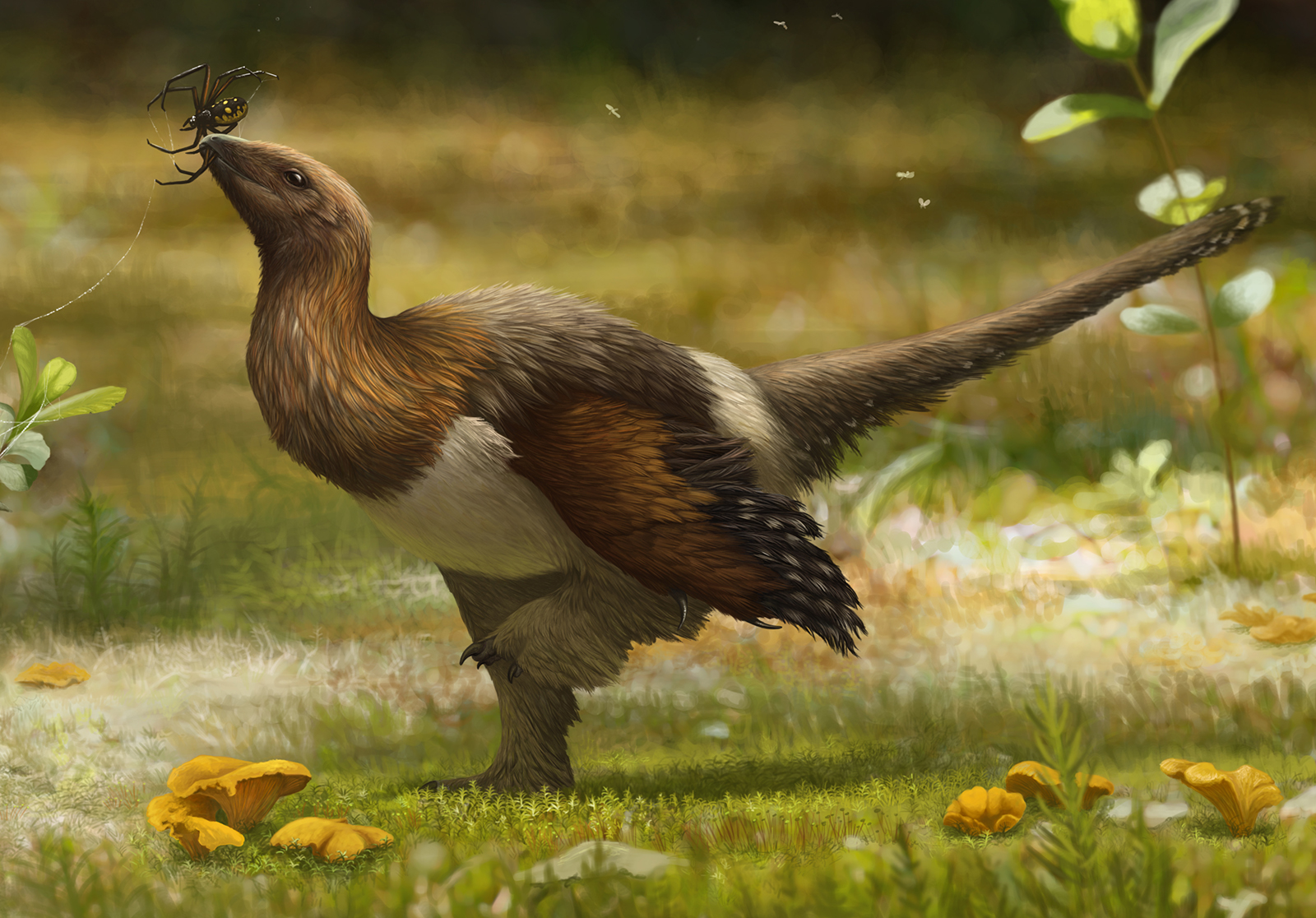 paravian dinosaur from the Upper Jurassic Tiaojishan Formation of Liaoning, China, described in 2017.